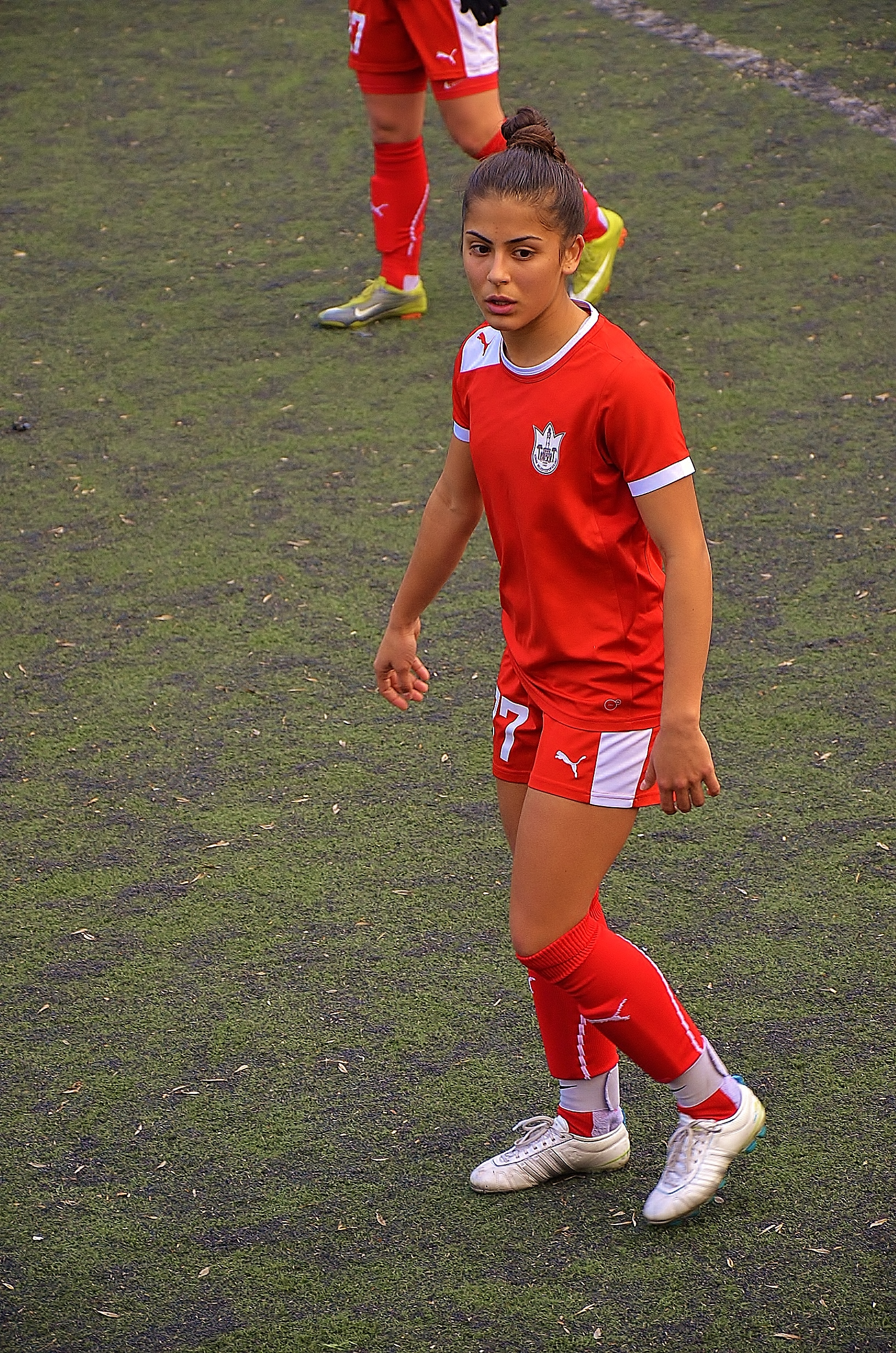 Sevgi Çınar Konak Belediyespor midfielder in the Turkish Women's First League match against Marmara Üniversitesi Spor on Jan 12, 2014